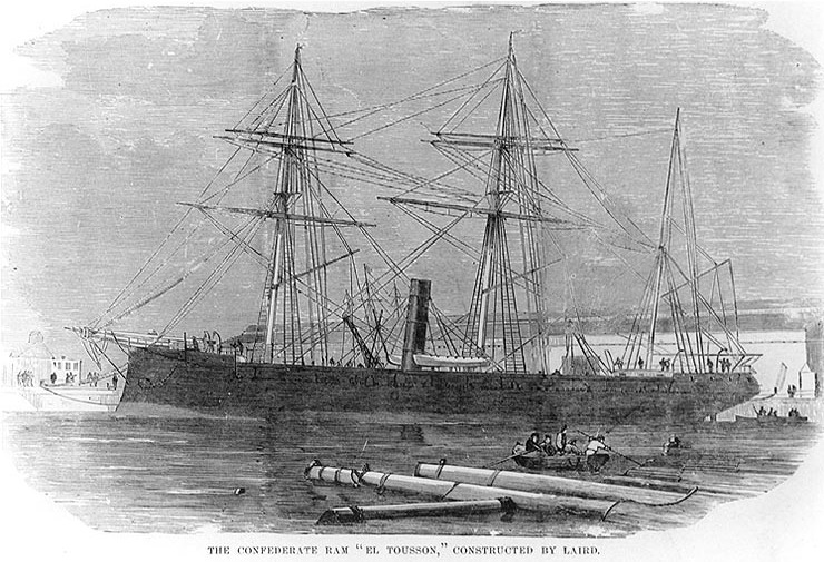 Line engraving published in "The Soldier in Our Civil War", Vol. II, page 68. It depicts one of the two turret ironclads laid down in 1862 by Laird Brothers for the Confederate States. El Tousson was a cover name for the ship intended to become CSS North Carolina. Nominally under construction for Egypt, her true ownership became known and she was seized by the British government in 1863, purchased for the Royal Navy in 1864 and completed in October 1865 as HMS Scorpion.